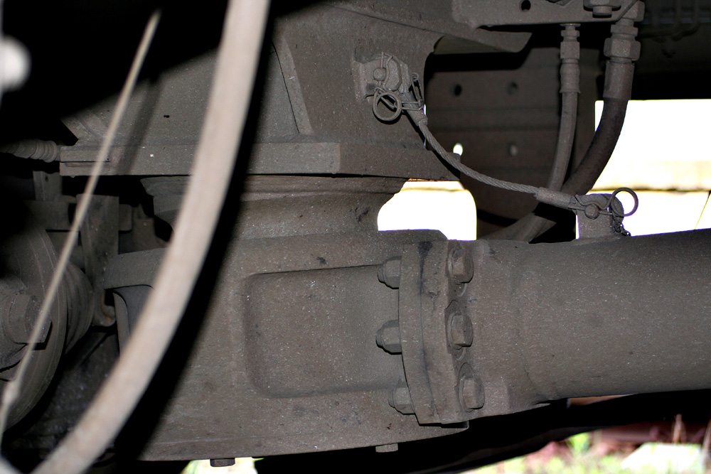 Pull/push rod of a DB class 101 locomotive.